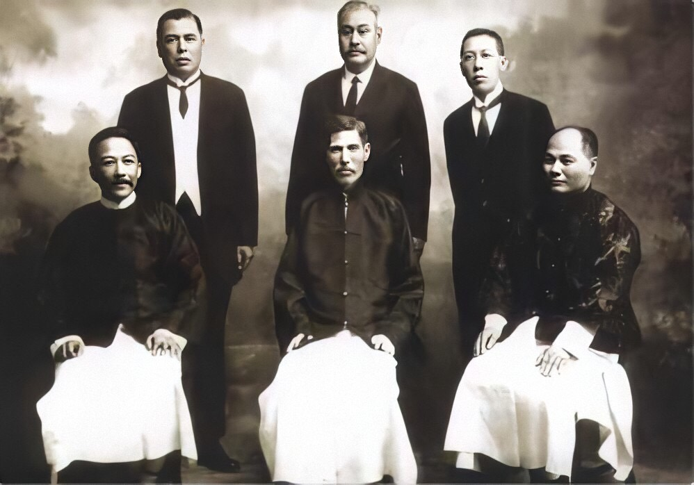 Robert Hotung (seated, middle), his brother Ho Fook (left, standing) and his first cousin Ho Kum (seated, right).